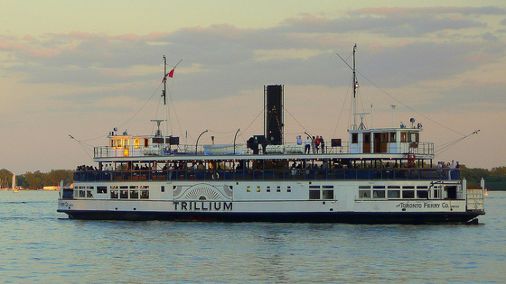 The Trillium, a paddlewheel steamer, in Toronto Harbour